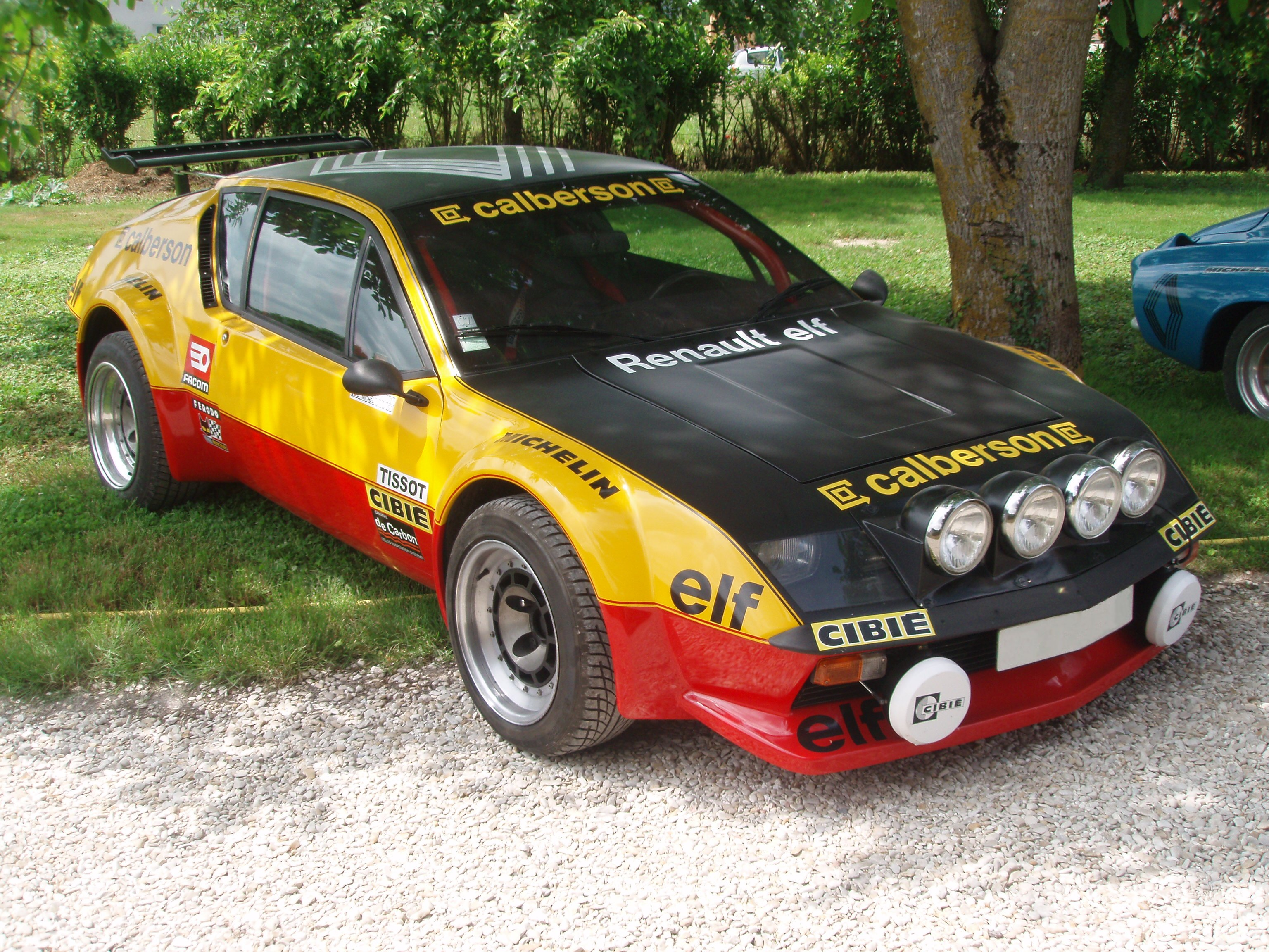 Racing version of the Alpine A310 V6